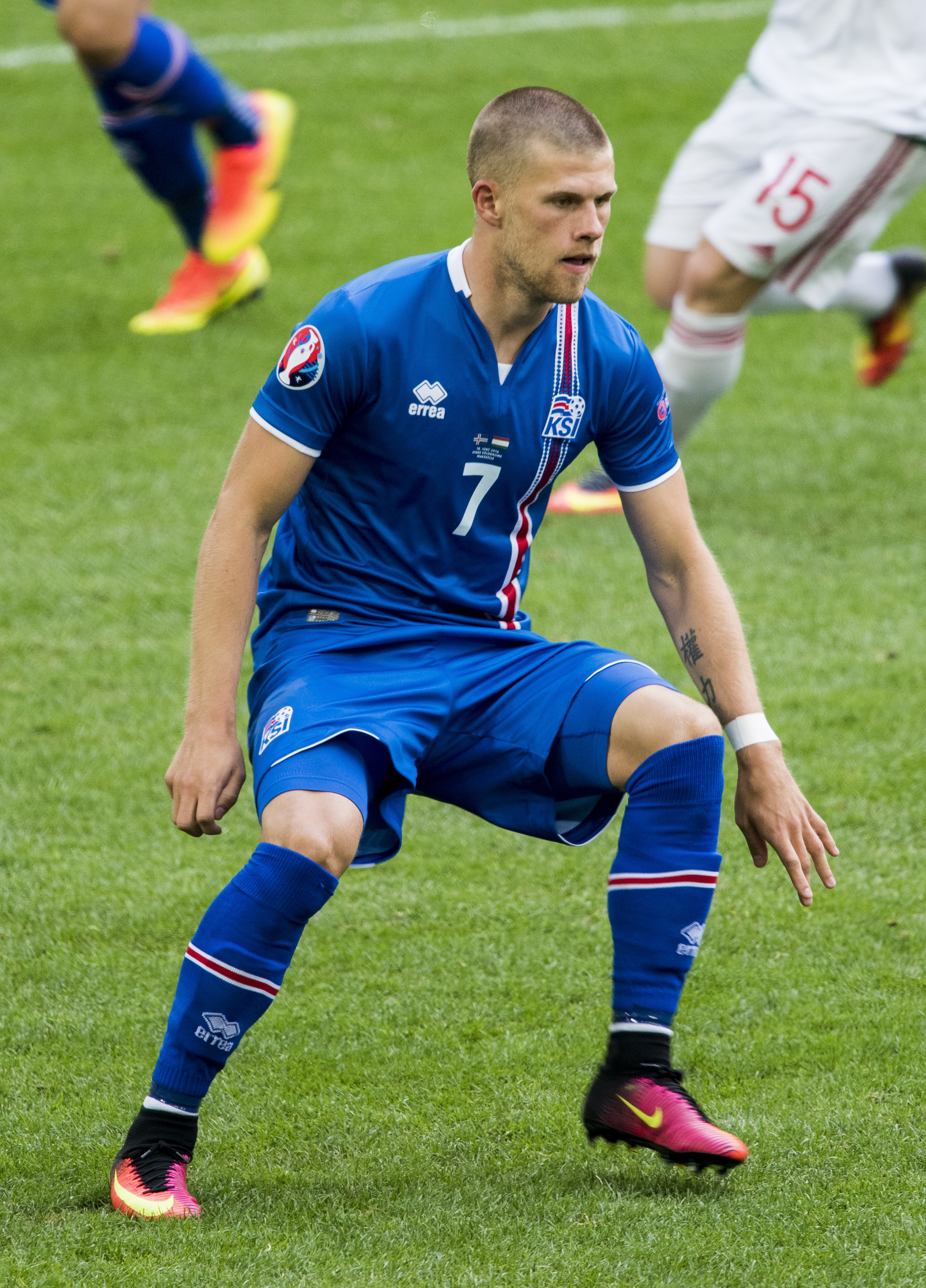 Jóhann Berg Guðmundsson playing for Iceland against Hungary at UEFA Euro 2016.